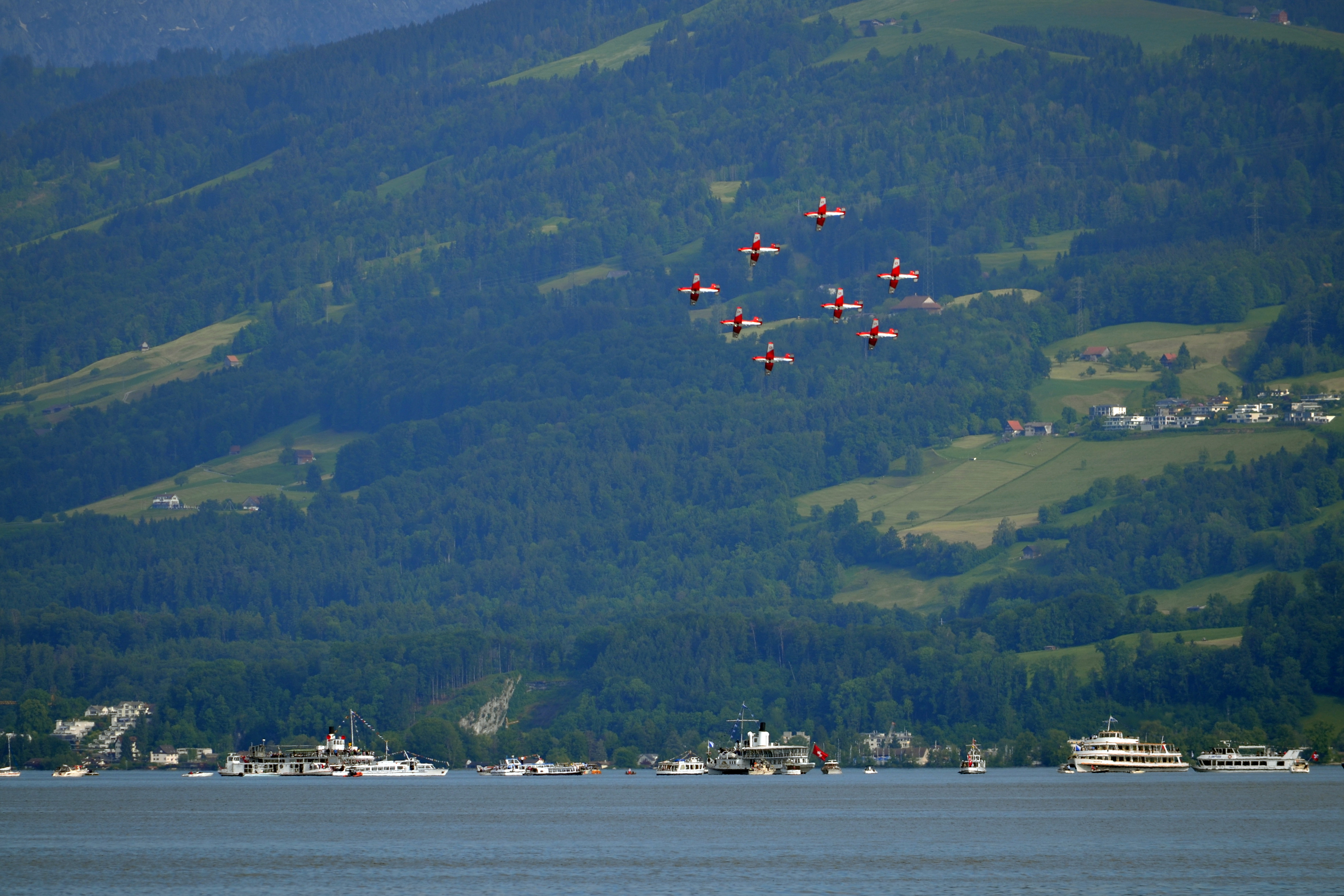 Centennial presentation of Zürichsee-Schifffahrtsgesellschaft (ZSG) paddle steamship Stadt Rapperswil at Bürkliplatz in Zürich (Switzerland)